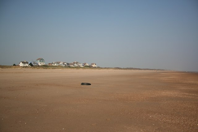 View towards Anderby Creek Low tide and an open beach view towards Anderby Creek